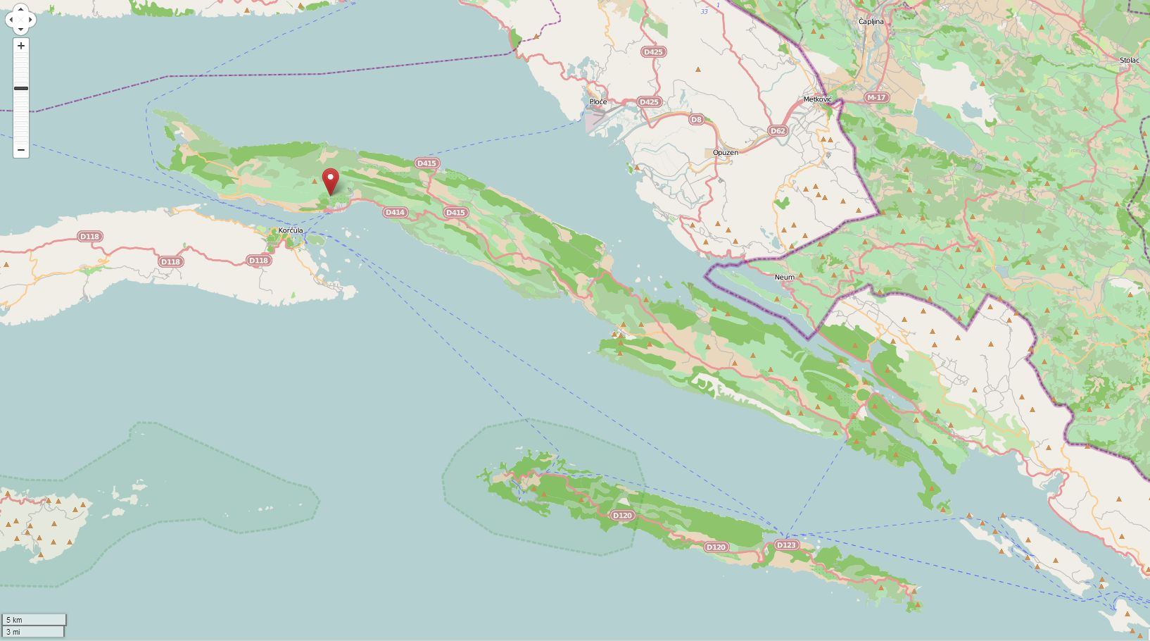 OpenStreetMap map of Pelješac with marked position of Orebić